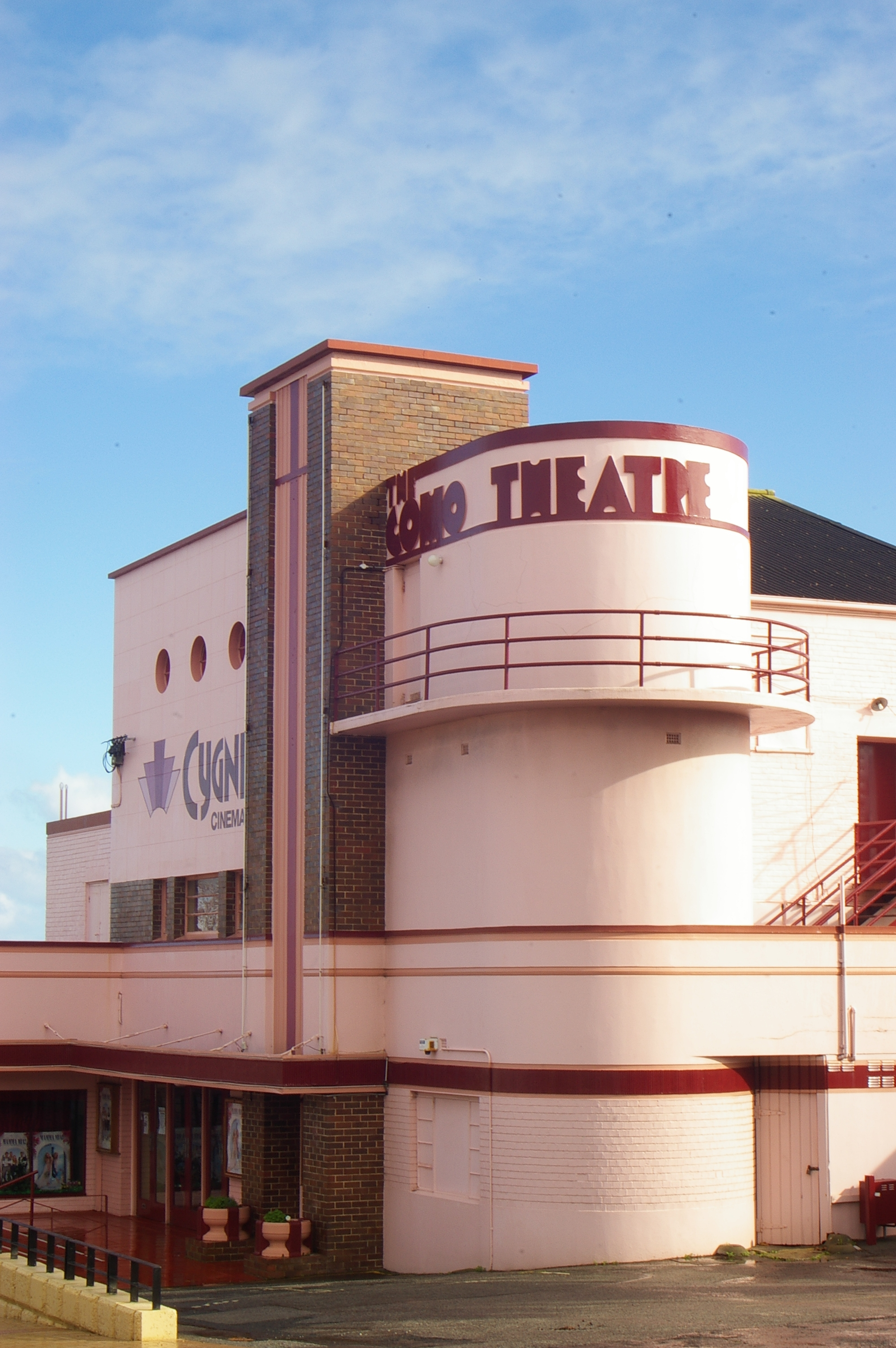 Art Deco design buildings around perth Cygnet Cinema in Como